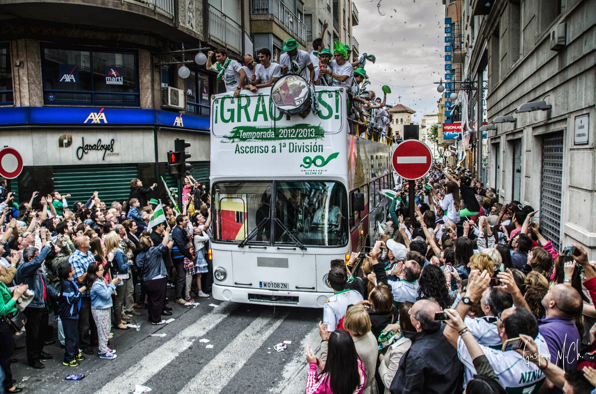 Elche a Primera